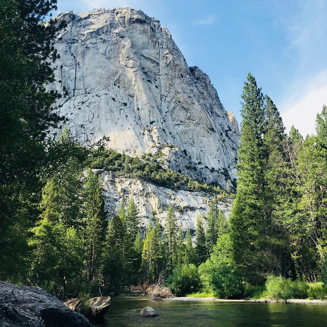 This is a photo of the South Fork Kings River in the King’s Canyon, located in Kings Canyon National Park.